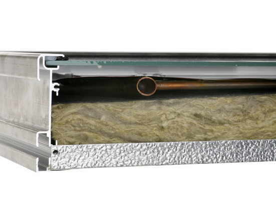 Solar thermal collector cutaway